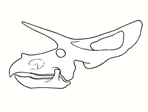 Sketch of the skull of Torosaurus. Part of the original description: “Torosaurus is from the uppermost Cretacic (Lance formation) of Wyoming.”